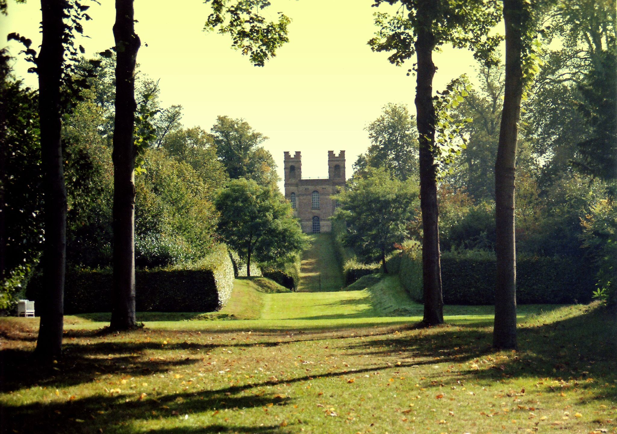 A fake house/castle - known as a belvedere - built in the historical landscape gardens of Claremont, in Surrey.